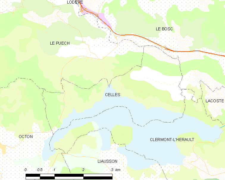 Map commune FR insee code 34072.png - Celles (Hérault)